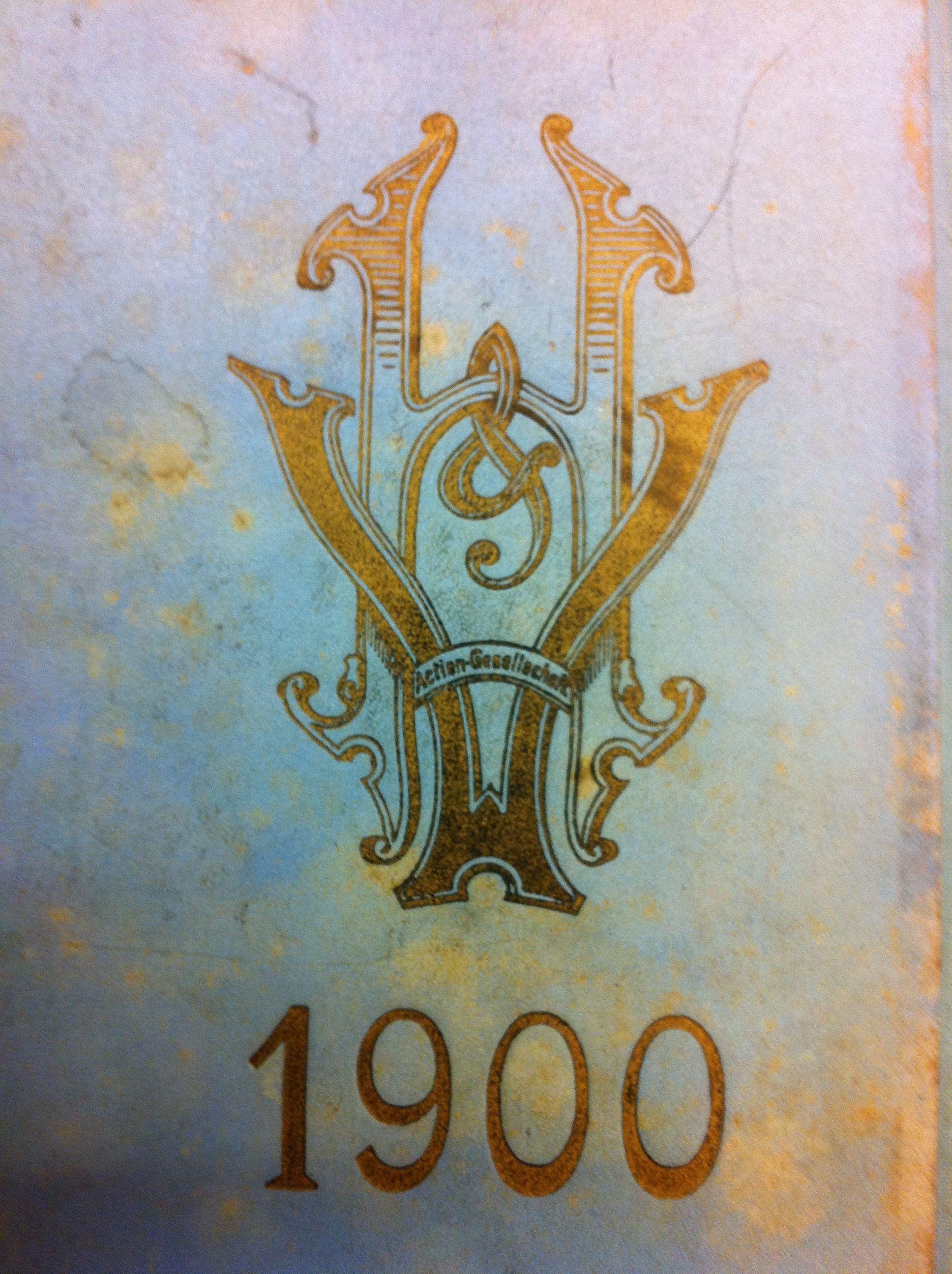 Haasenstein und Vogler Logo